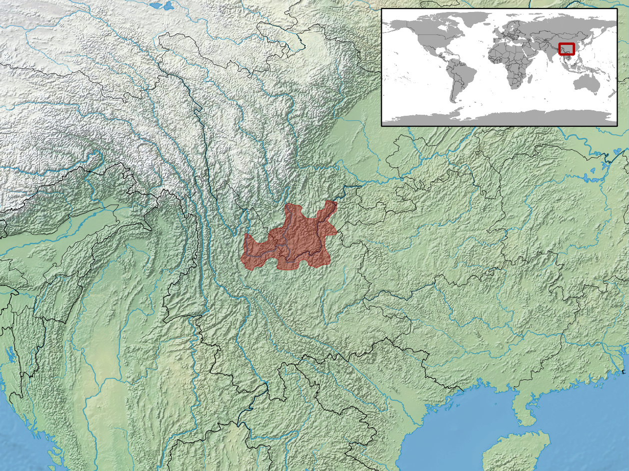 geographic distribution of Gekko scabridus (Native: China (Sichuan, Yunnan))